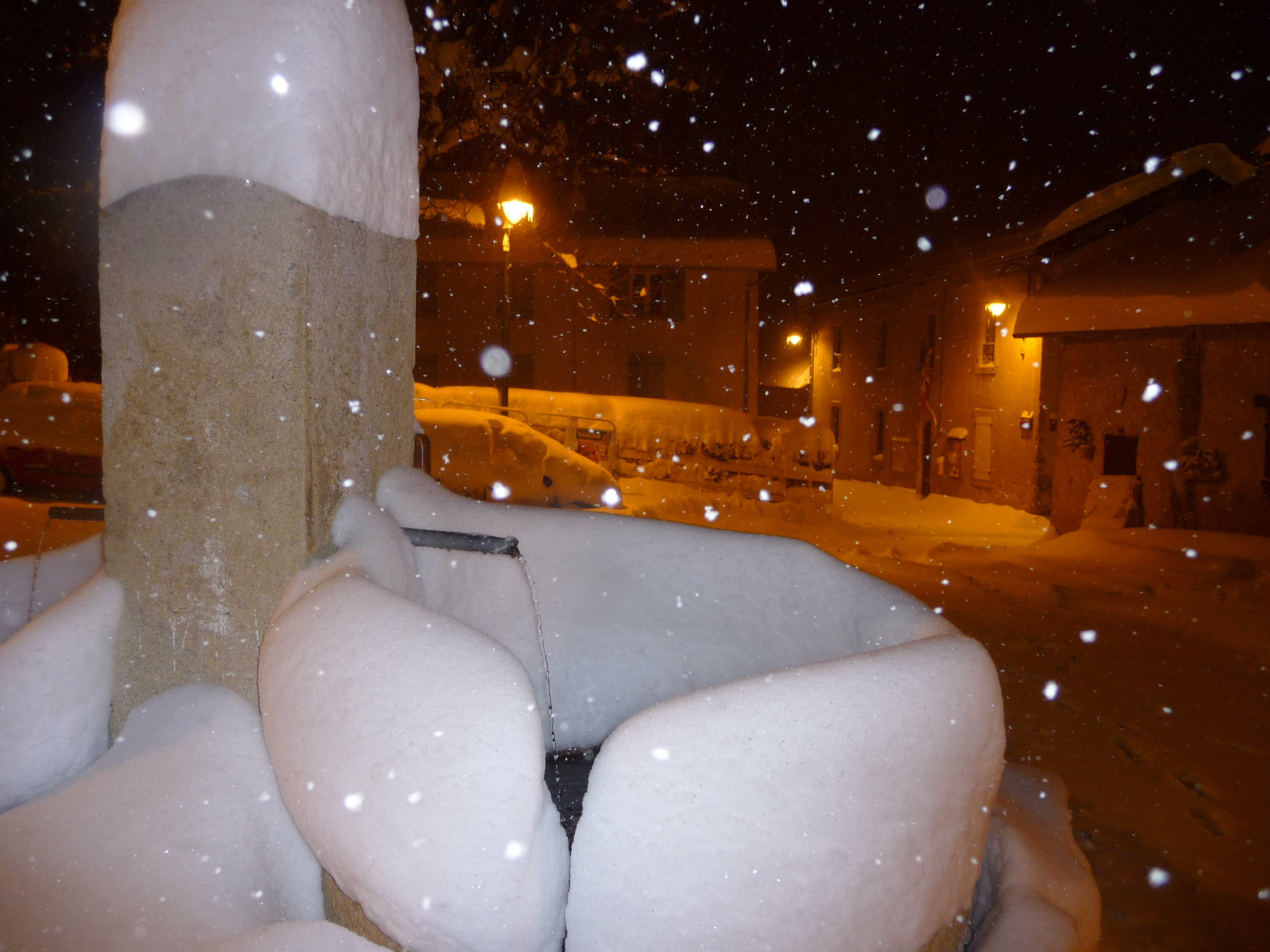 Night Snow @ Fontrabiouse